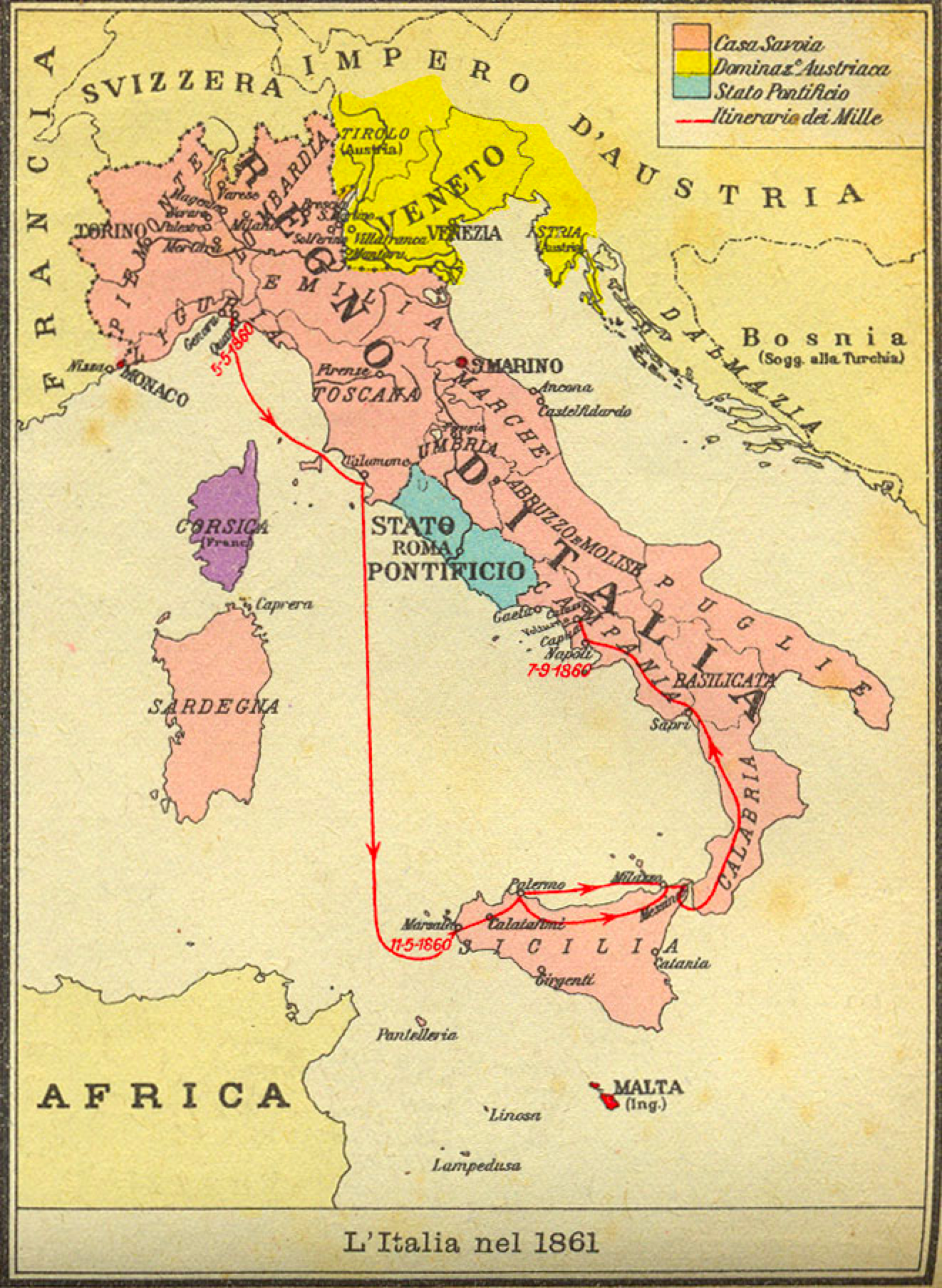 Italy - 1861 map